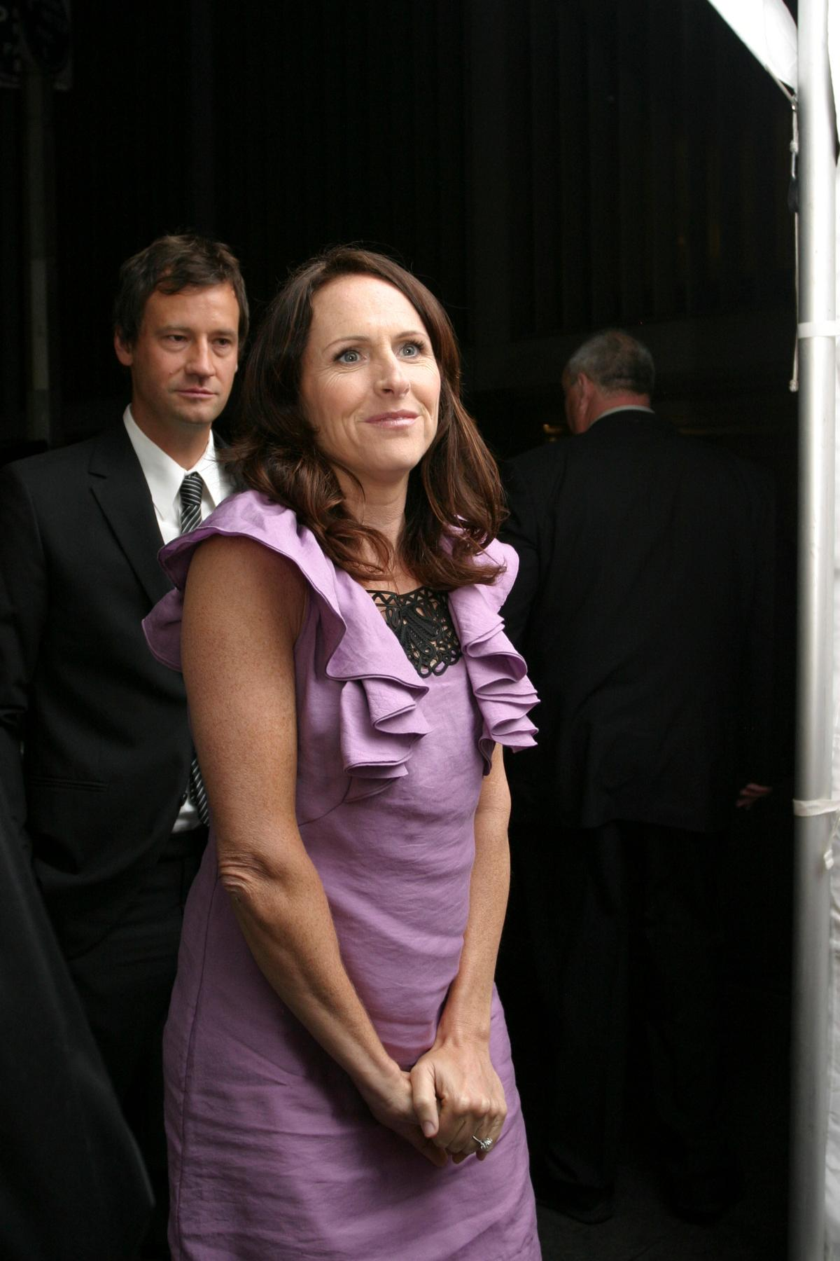 Molly Shannon – Tribeca Film Festival "Whatever Works" Premiere.